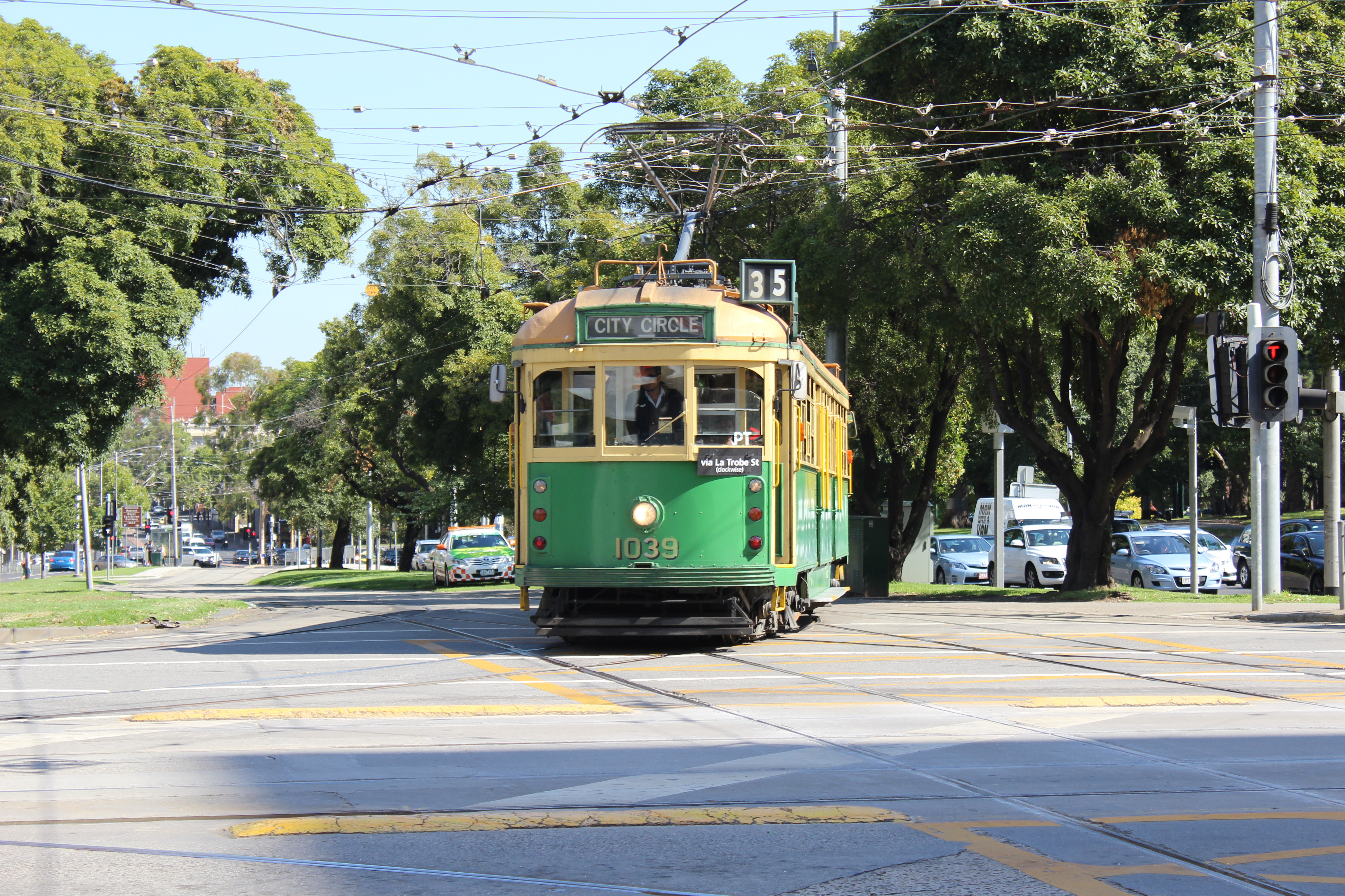 W7 1039 on the City Circle, turning from Victoria Parade into Nicholson Street, 2013.